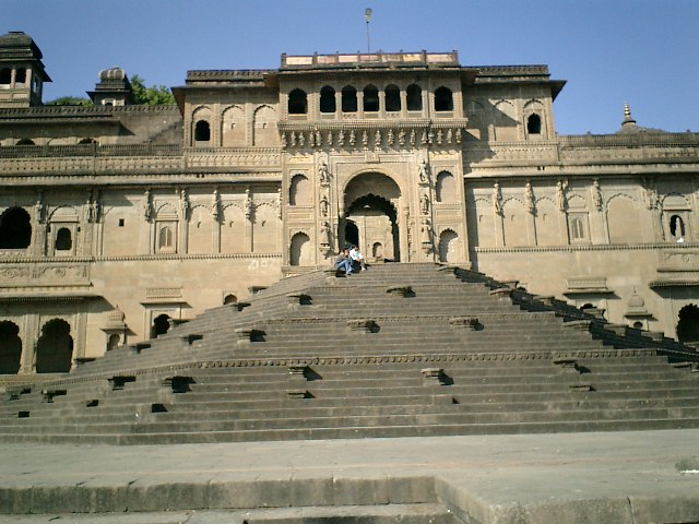 Fort Ahilya on the Narmada